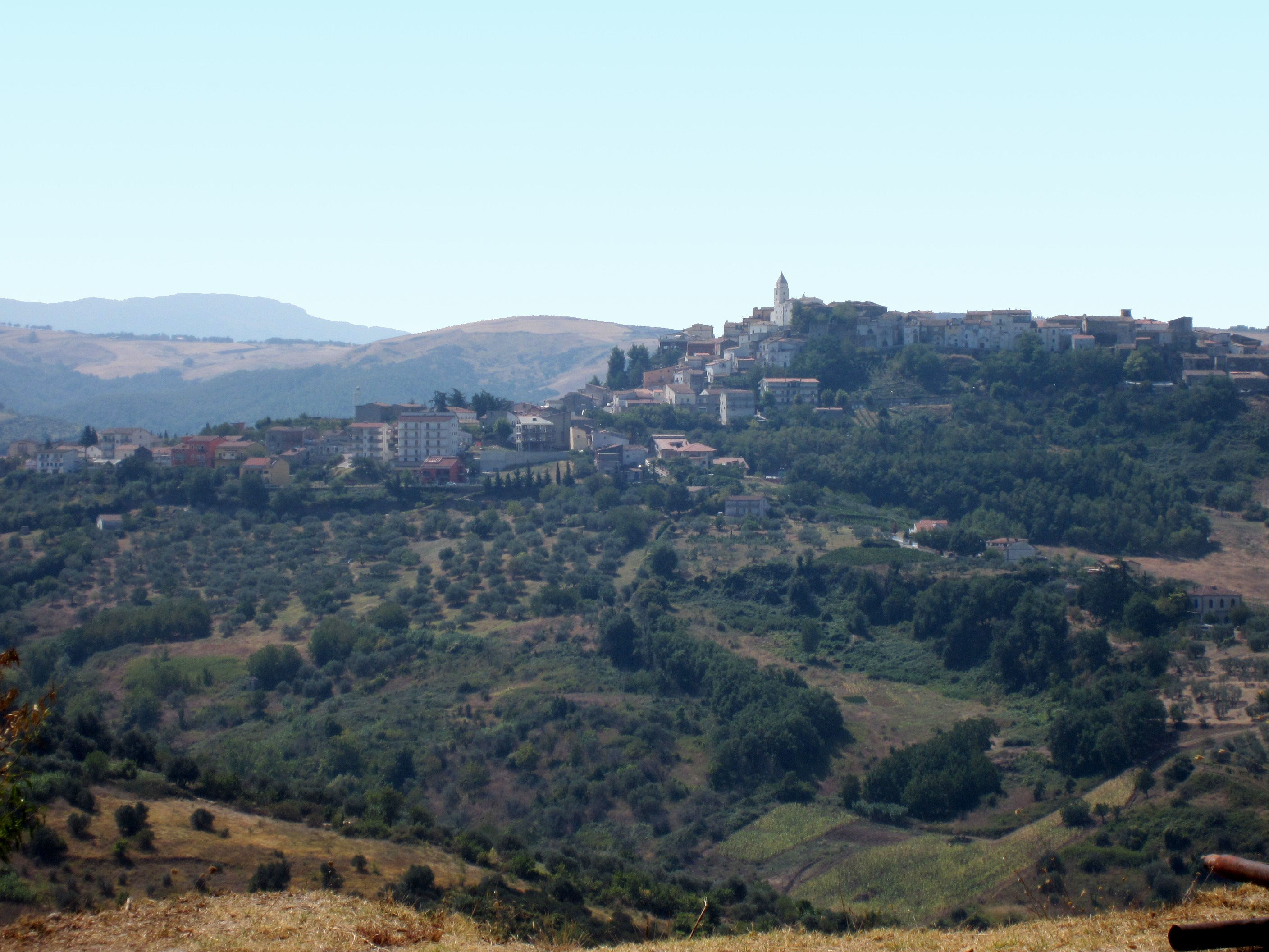 Ripacandida